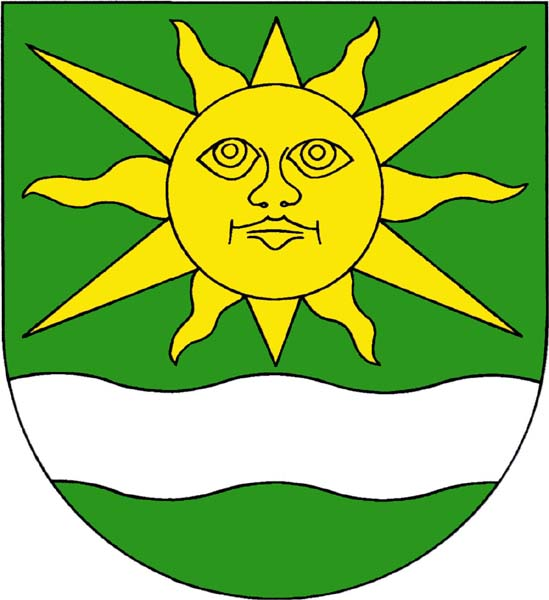 Municipal coat of arms of Vědomice village, Litoměřice District, Czech Republic.